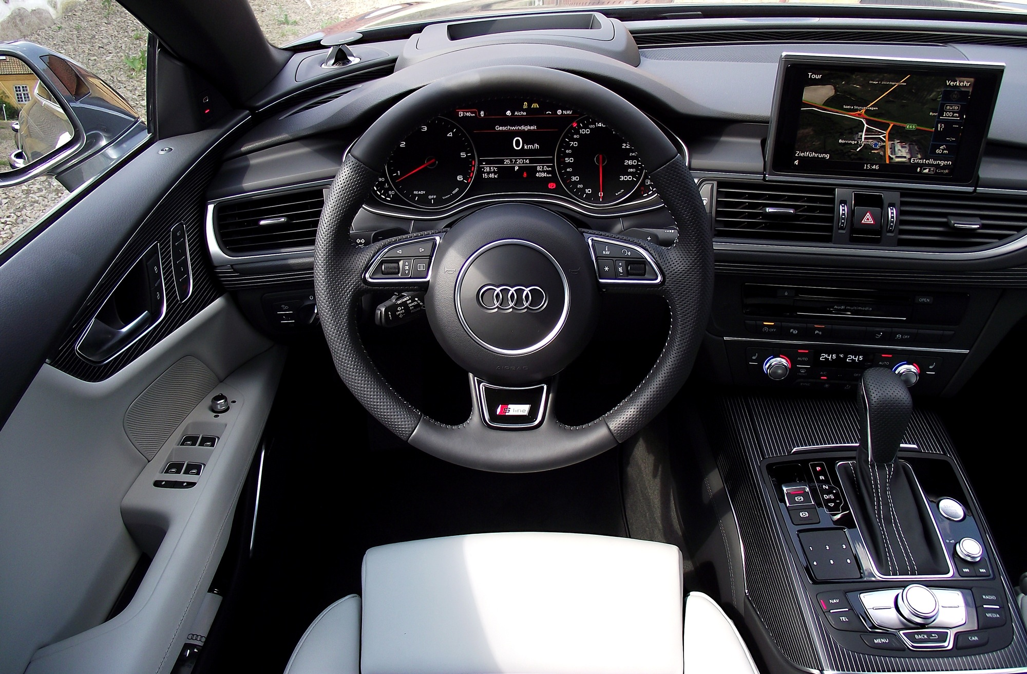 2014 Audi A7 Sportback 3.0 TDI competition Cockpit